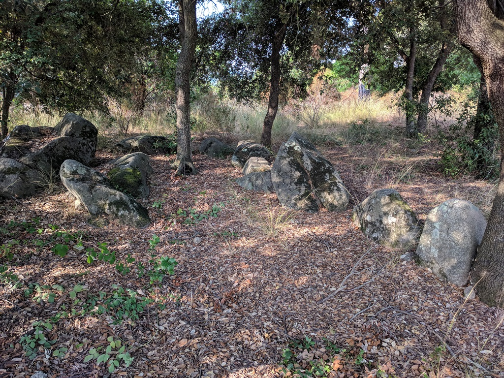 Pedra Gravada del Turó dels Castellans